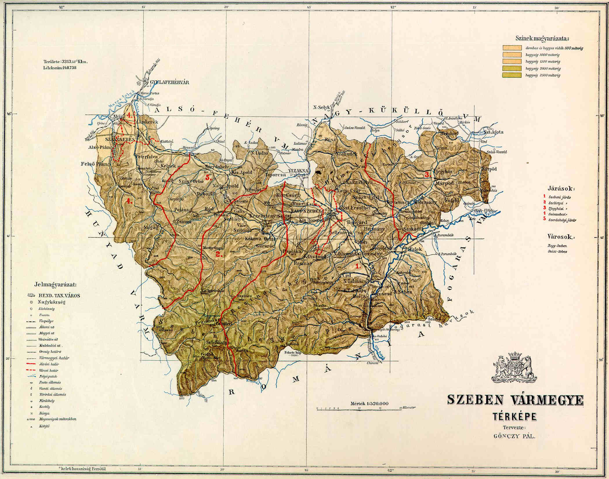 County of Szeben in the pre-Trianon Kingdom of Hungary. Komitat Szeben w Królestwie Węgier przed traktatem w Trianon.